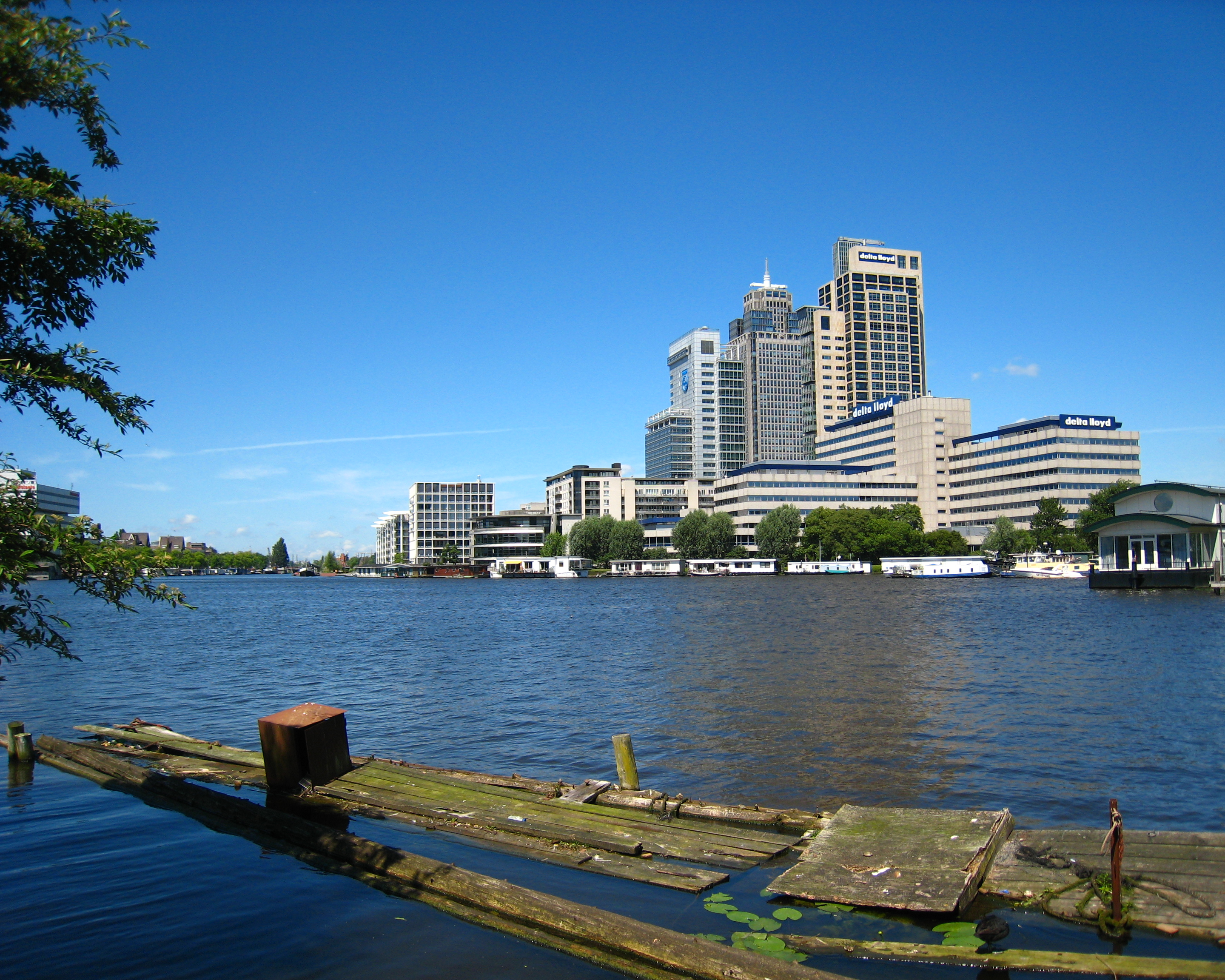 The river Amstel in Amsterdam. The three tall buildings from left to right: Breitner toren/Breitner tower, Rembrandt toren/Rembrand tower, Mondriaan toren/Mondriaan tower.